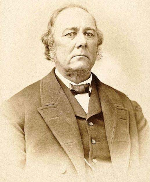 Charles C. Rich, an early leader in the Latter Day Saint movement and an apostle of The Church of Jesus Christ of Latter-day Saints (LDS Church). Albumen print, 2.375 × 3.875 in.